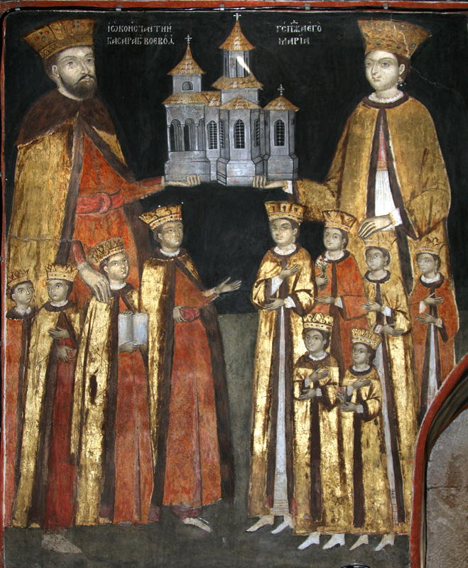 Manastirea Mamu: biserica ctitoriiRomână: Mănăstirea Mamu: ctitorul Constantin Brâncoveanu cu patru fii în partea stângă a frescei, iar în partea dreaptă soția sa, Doamna Maria, cu șase dintre fiice.